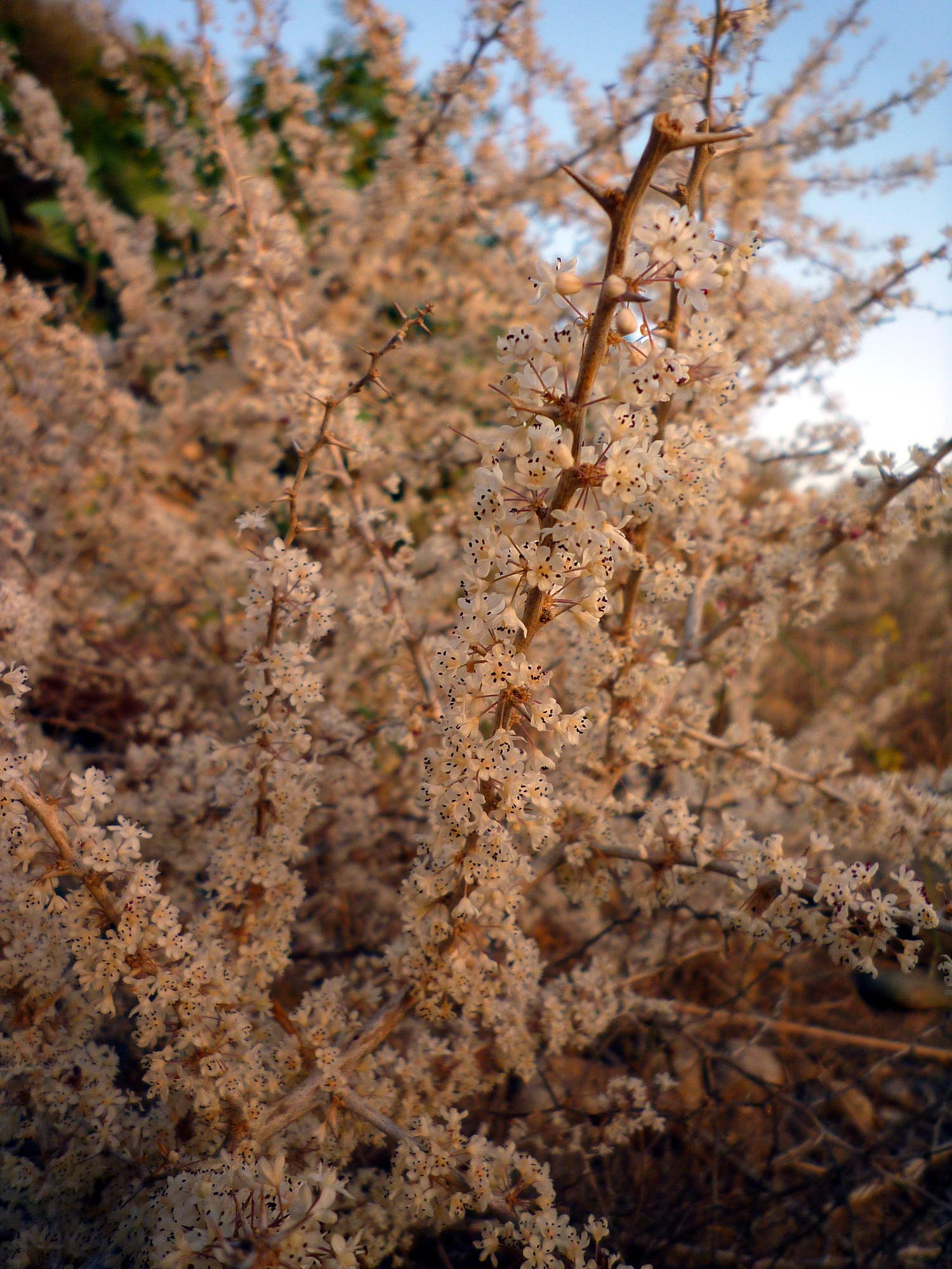 Asparagus albus in Cartagena (Spain).